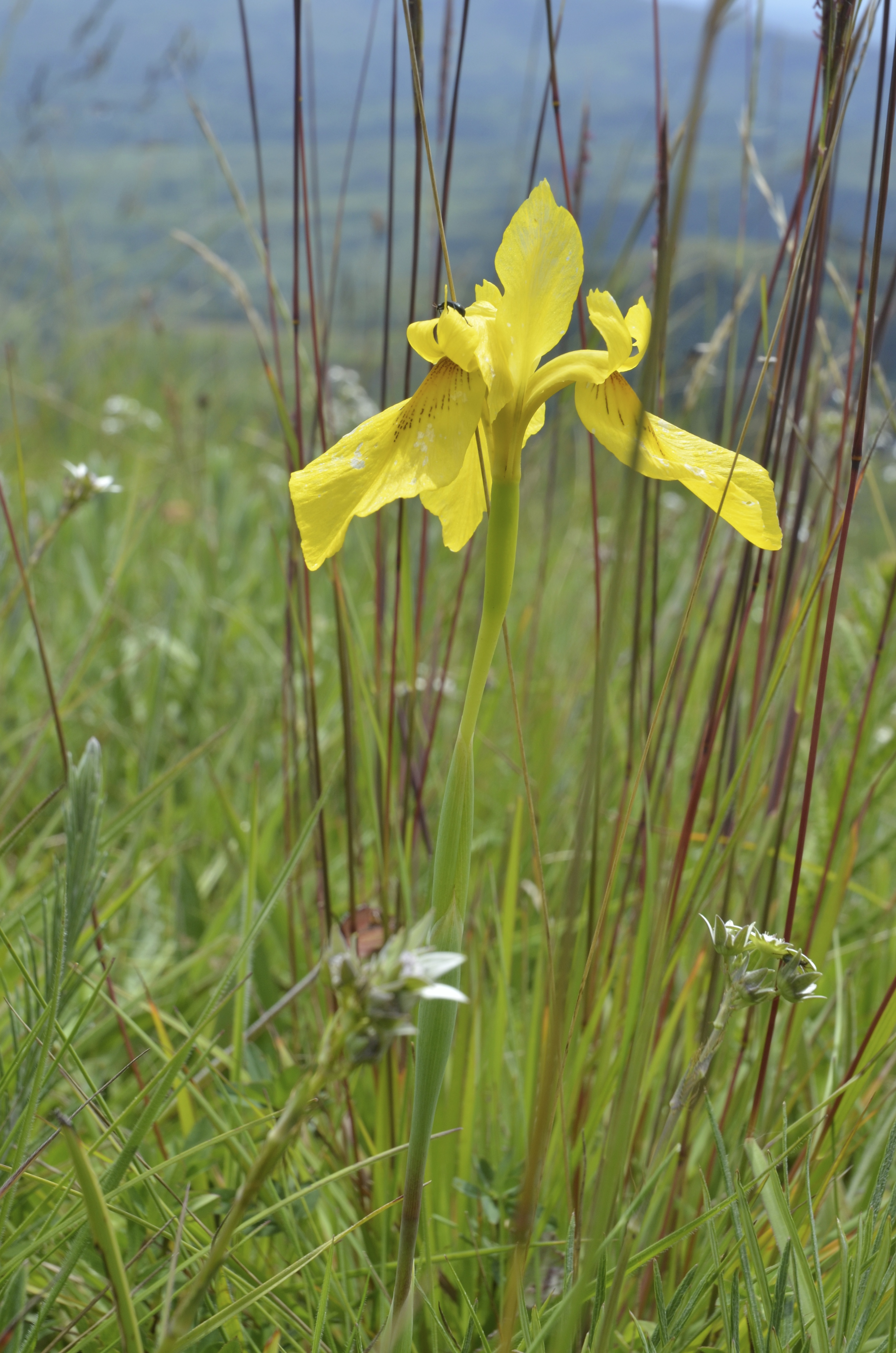 Picture taken in Kitulo National Park.